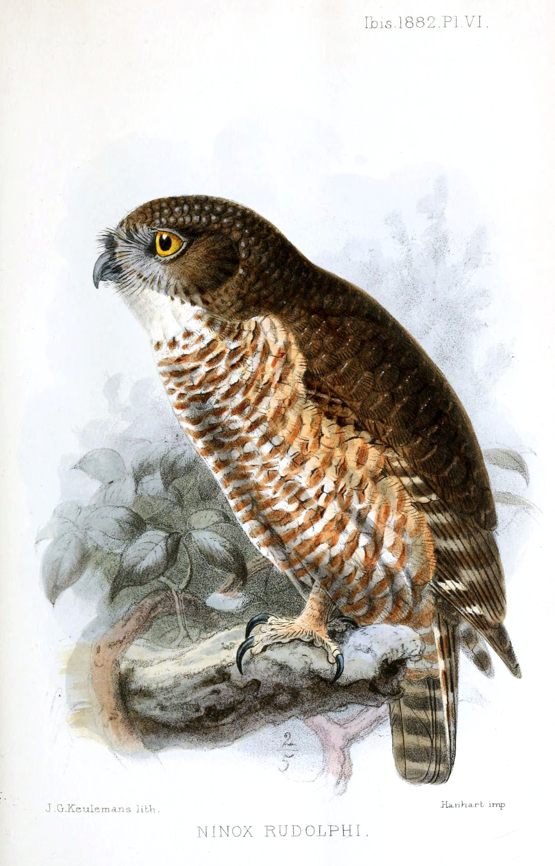 « Ninox rudolphi » = Ninox rudolfi (Sumba boobook)